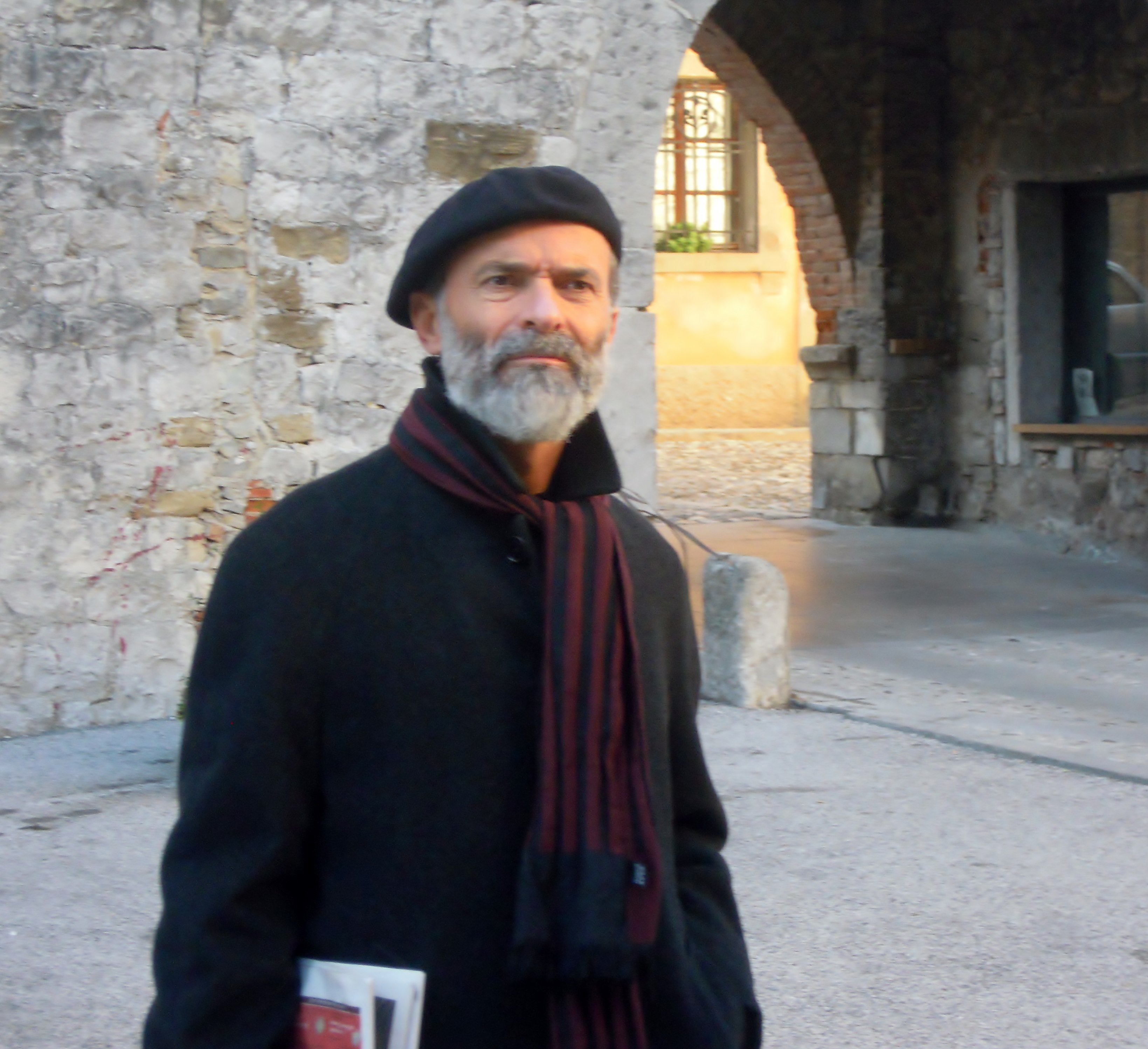 Le poète Gezim Hajdari